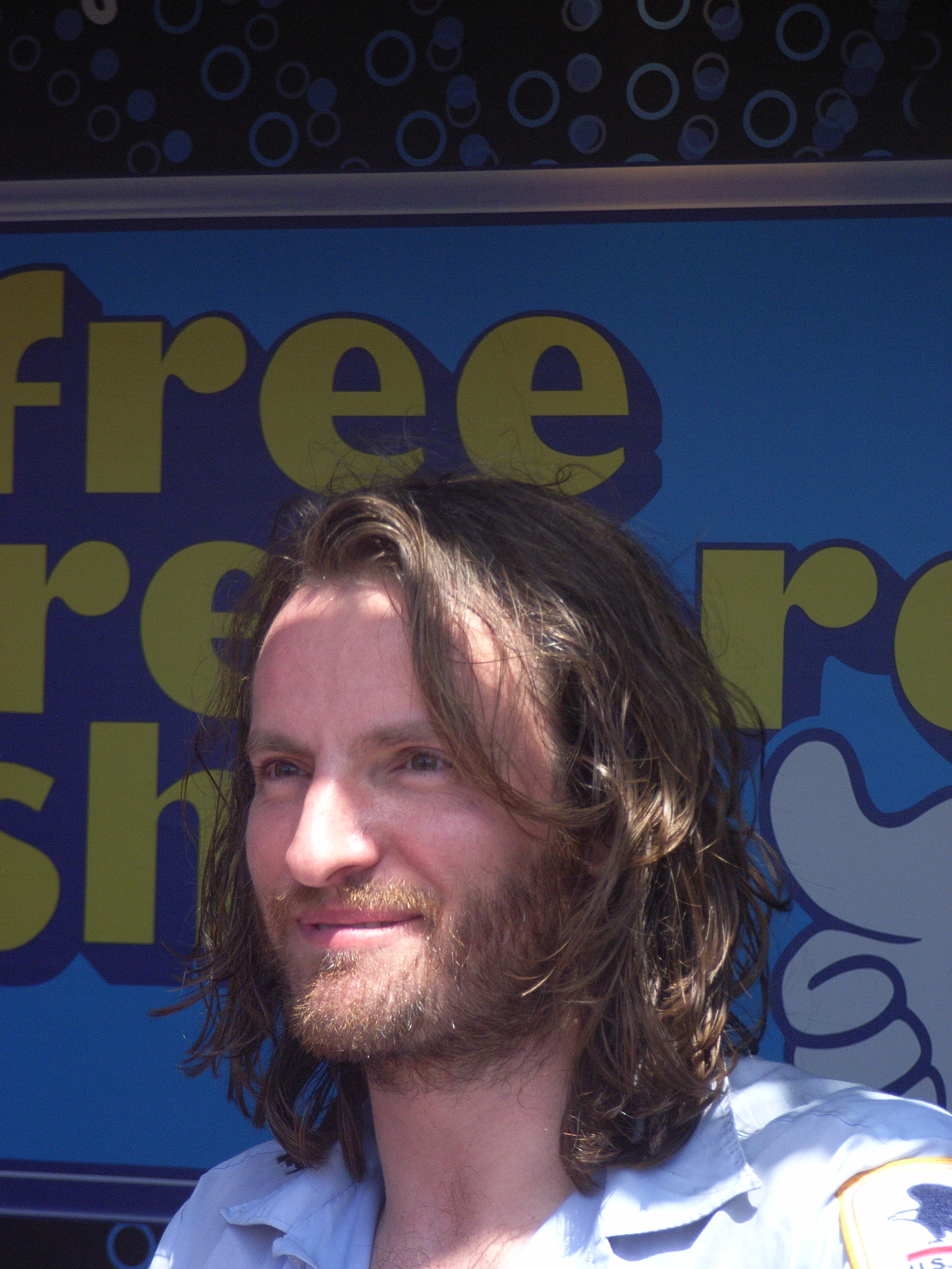 The leadsinger of Fiction Plane and son of Sting Joe Sumner at Pinkpop 2008.